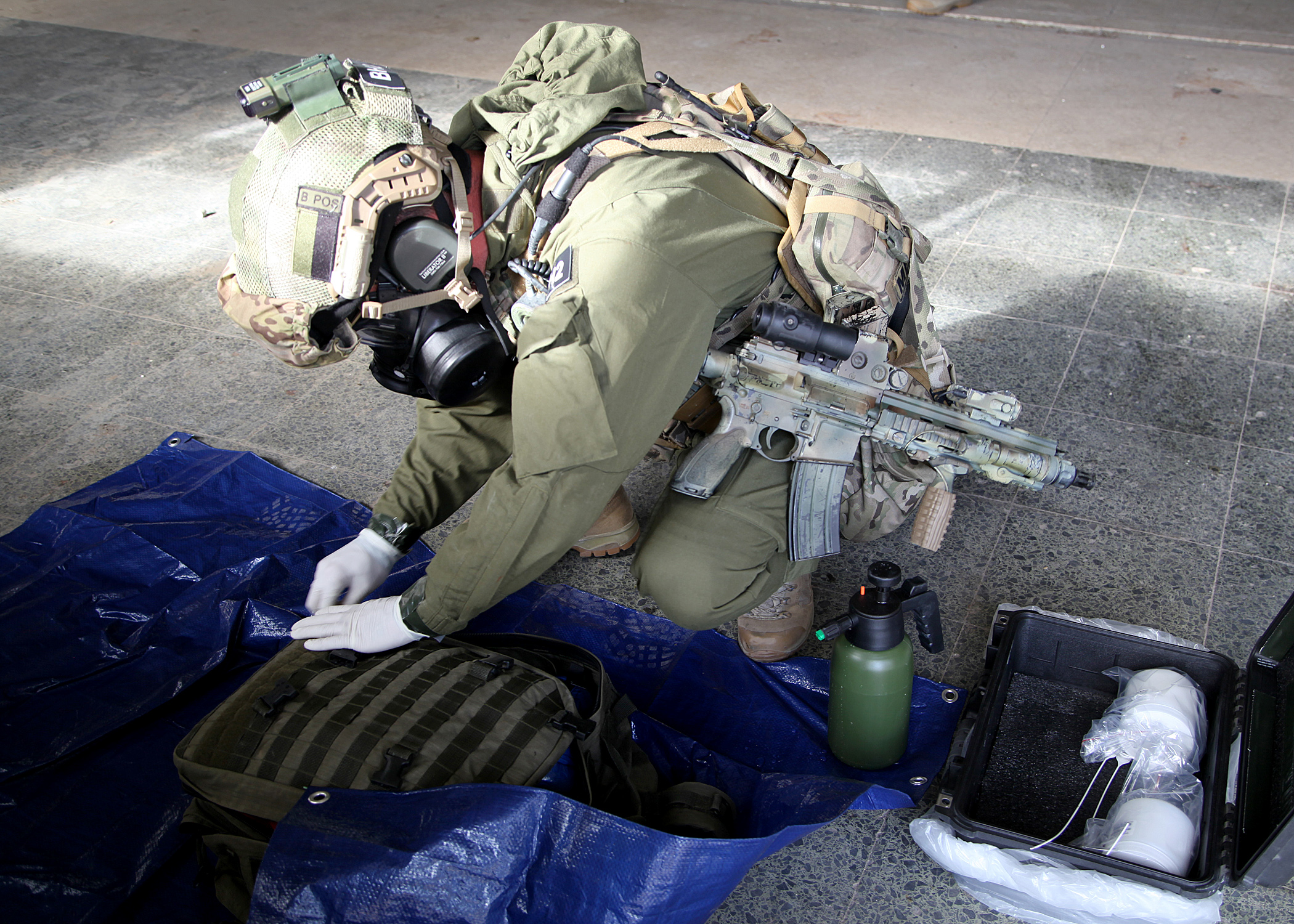 A soldier in the Polish Multi-role exploitation Reconnaissance Team (MRT) opens his hazmat kit to test the material found in the building in Lisbon, Portugal on October 29, 2015 during NATO exercise Trident Juncture 15.